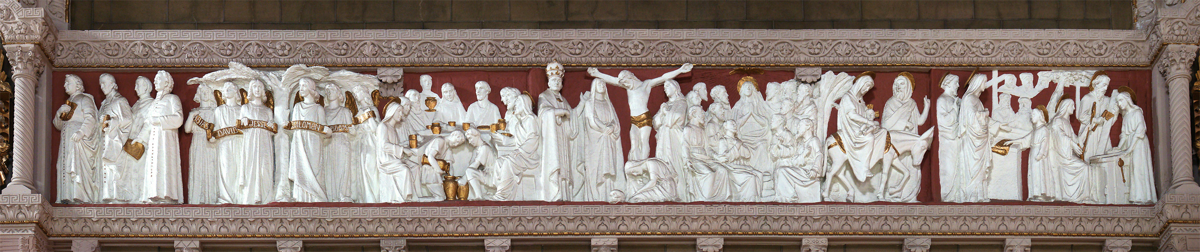 Church of Nativité-de-la-Sainte-Vierge-d’Hochelaga, Montreal, Quebec, Canada. The monumental frieze on the north side of the nave.